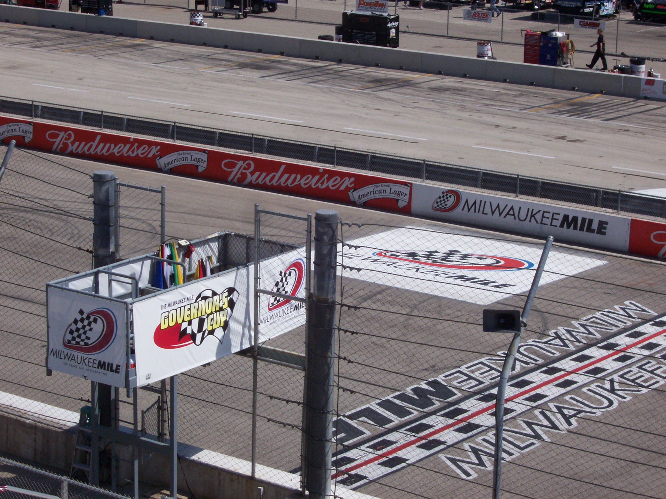 The start/finish line at the Milwaukee Mile at the 2008 Governor's Cup weekend.